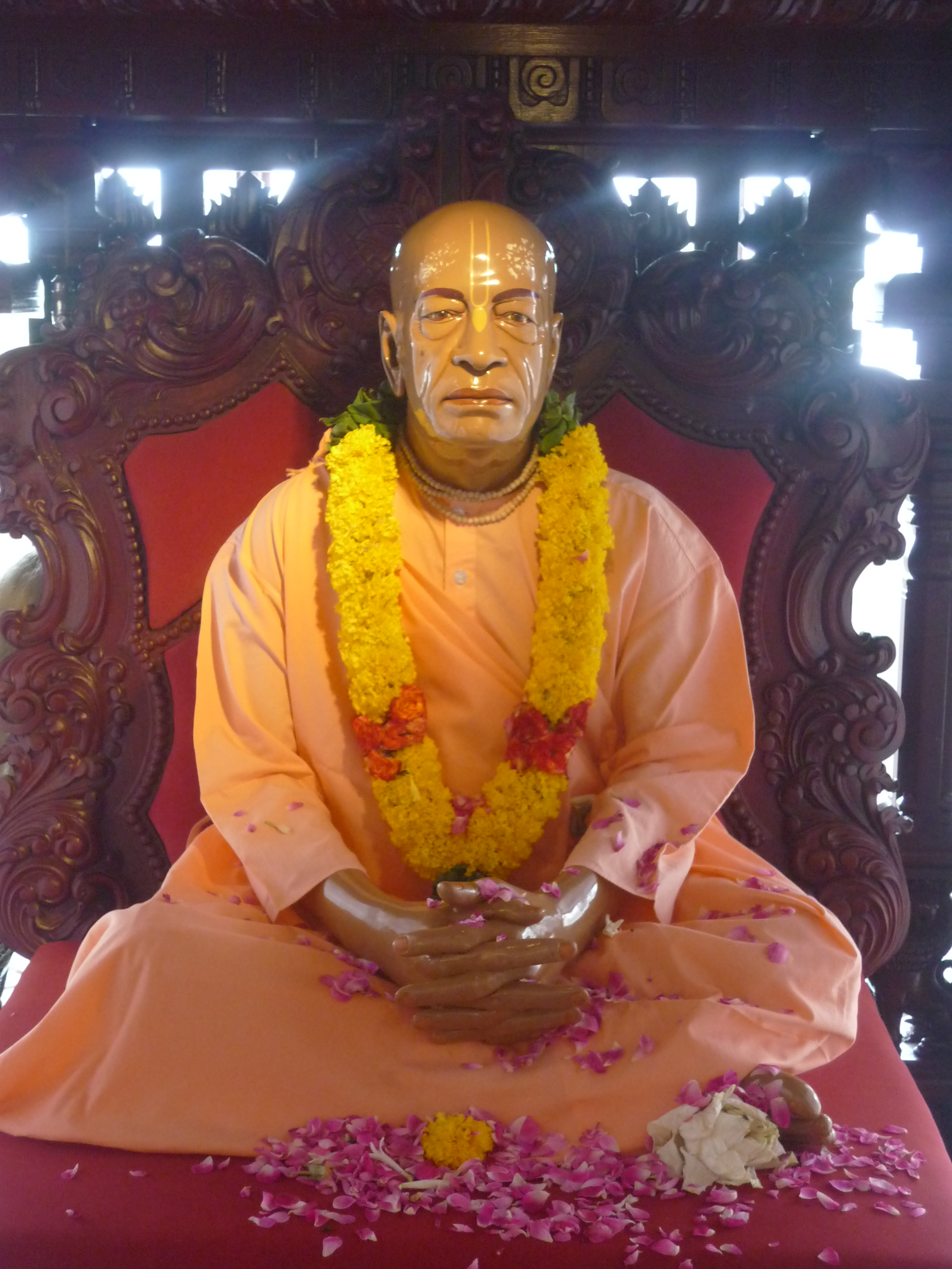 ISKCON Temple Chennai, Statue of Swami Prabhupaadha, taken on 1-May-2012